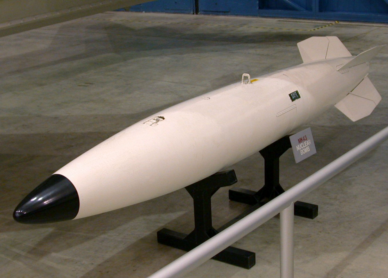 B43 nuclear bomb